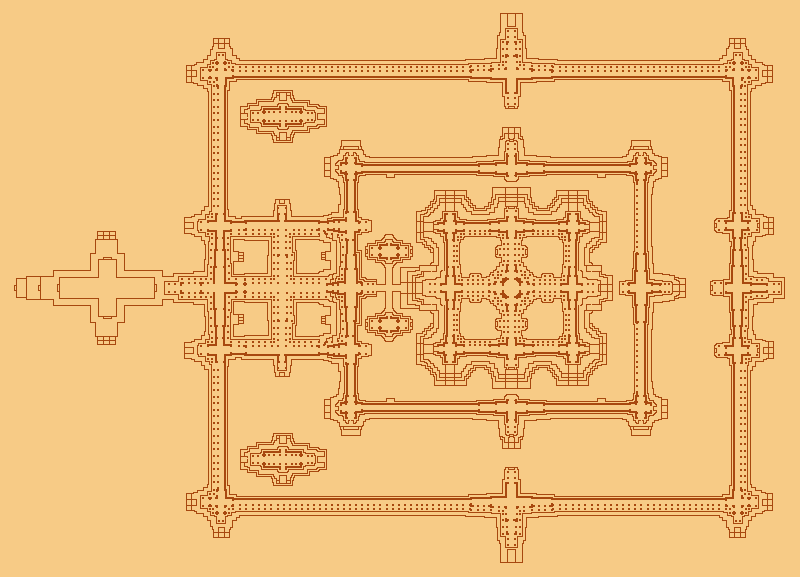 Angkor Wat plan. Angkor. Cambodia